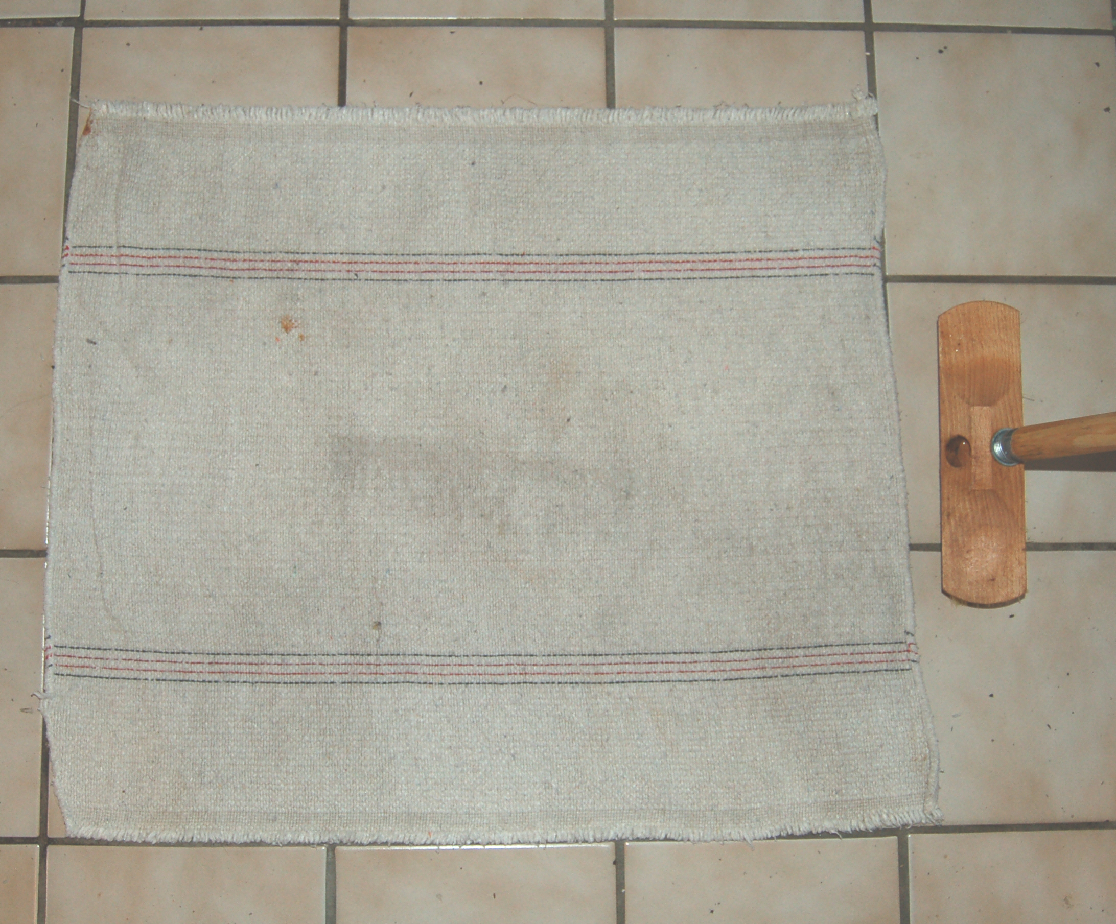 Floorcloth